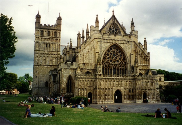 Exeter Cathedral